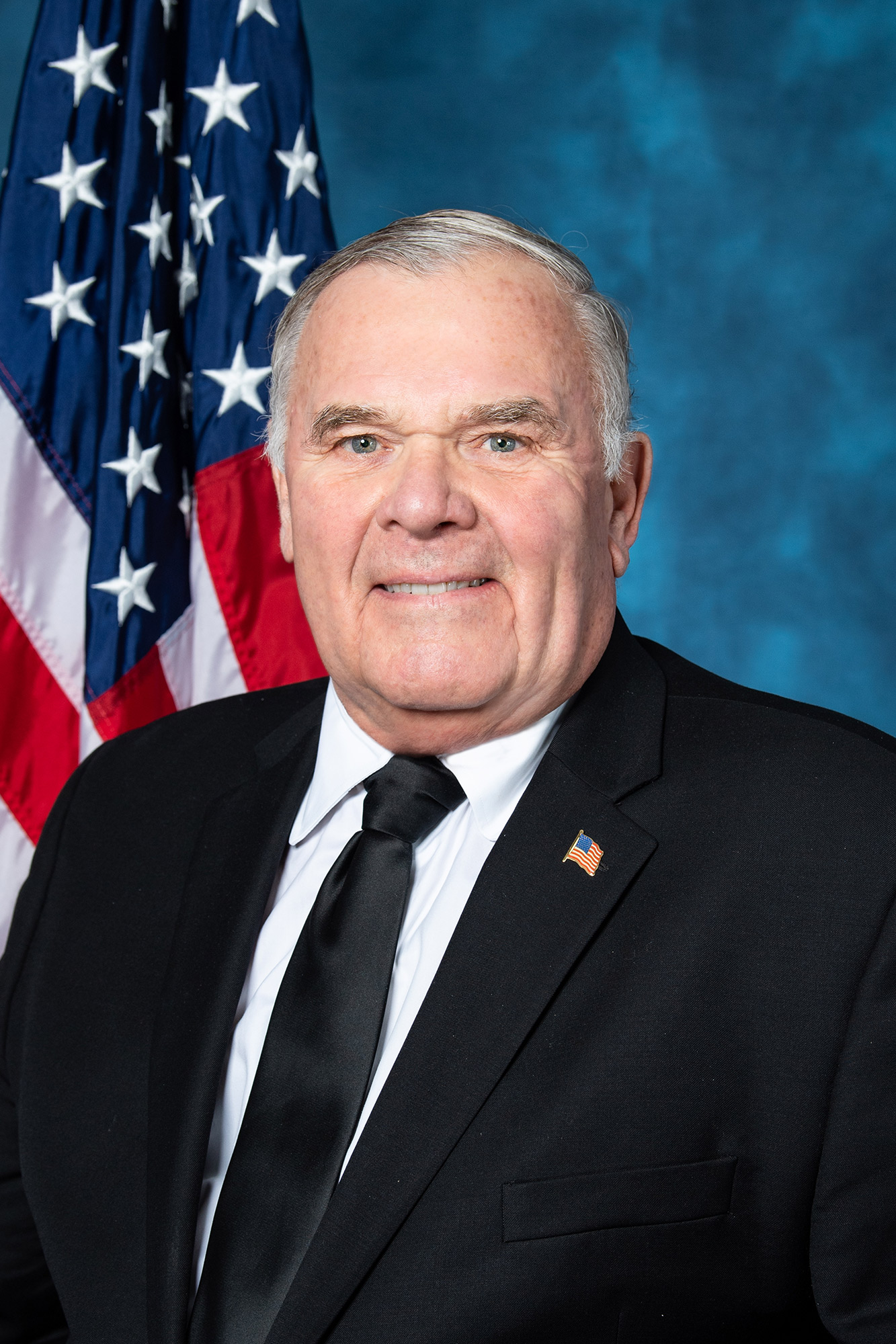 Official photo of freshman Rep. Jim Baird of Indiana's 4th congressional district from the 116th congress.